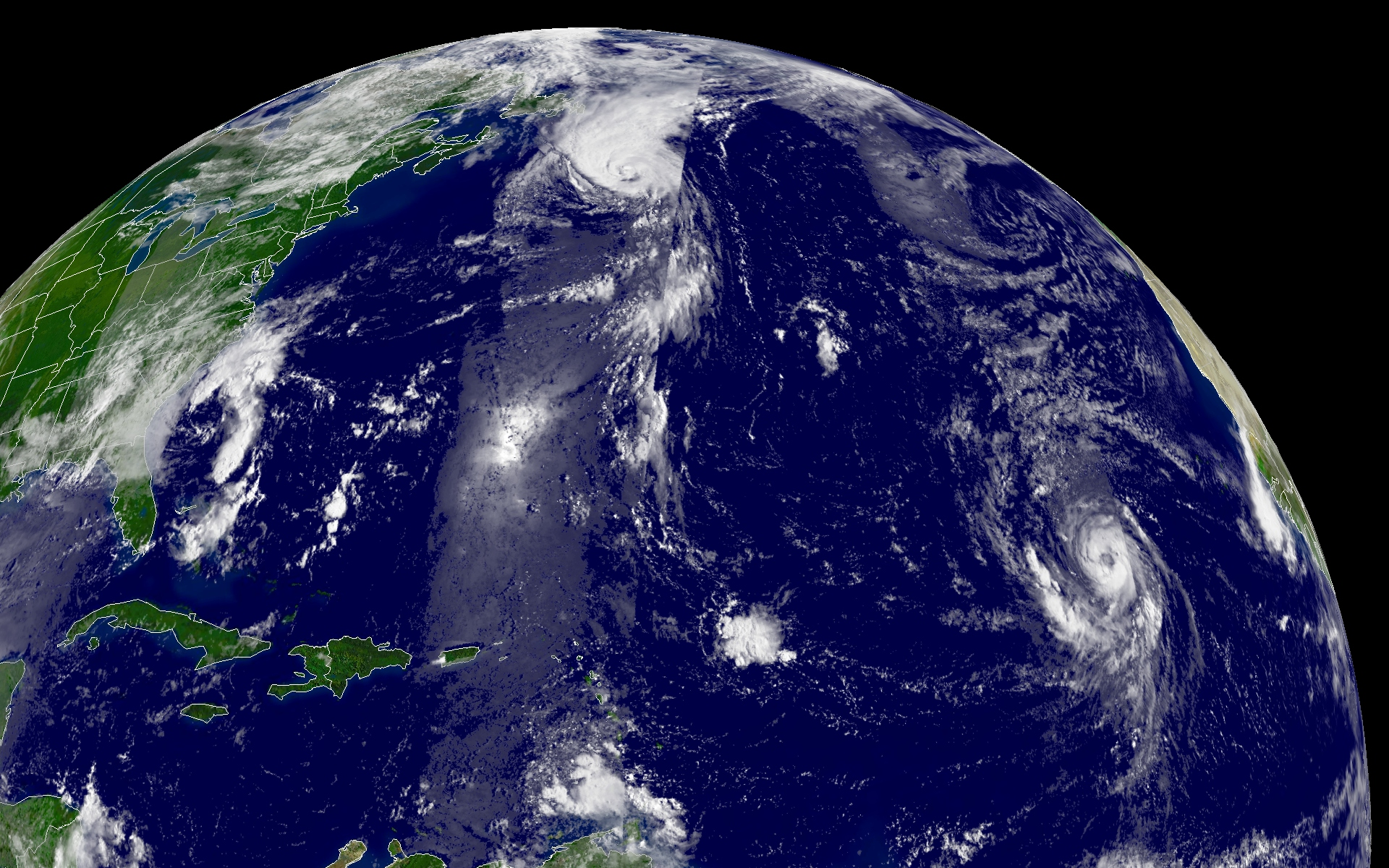 This image shows Hurricane Fabian at the top, Hurricane Isabel at the right, and Tropical Storm Henri on the left on September 7.